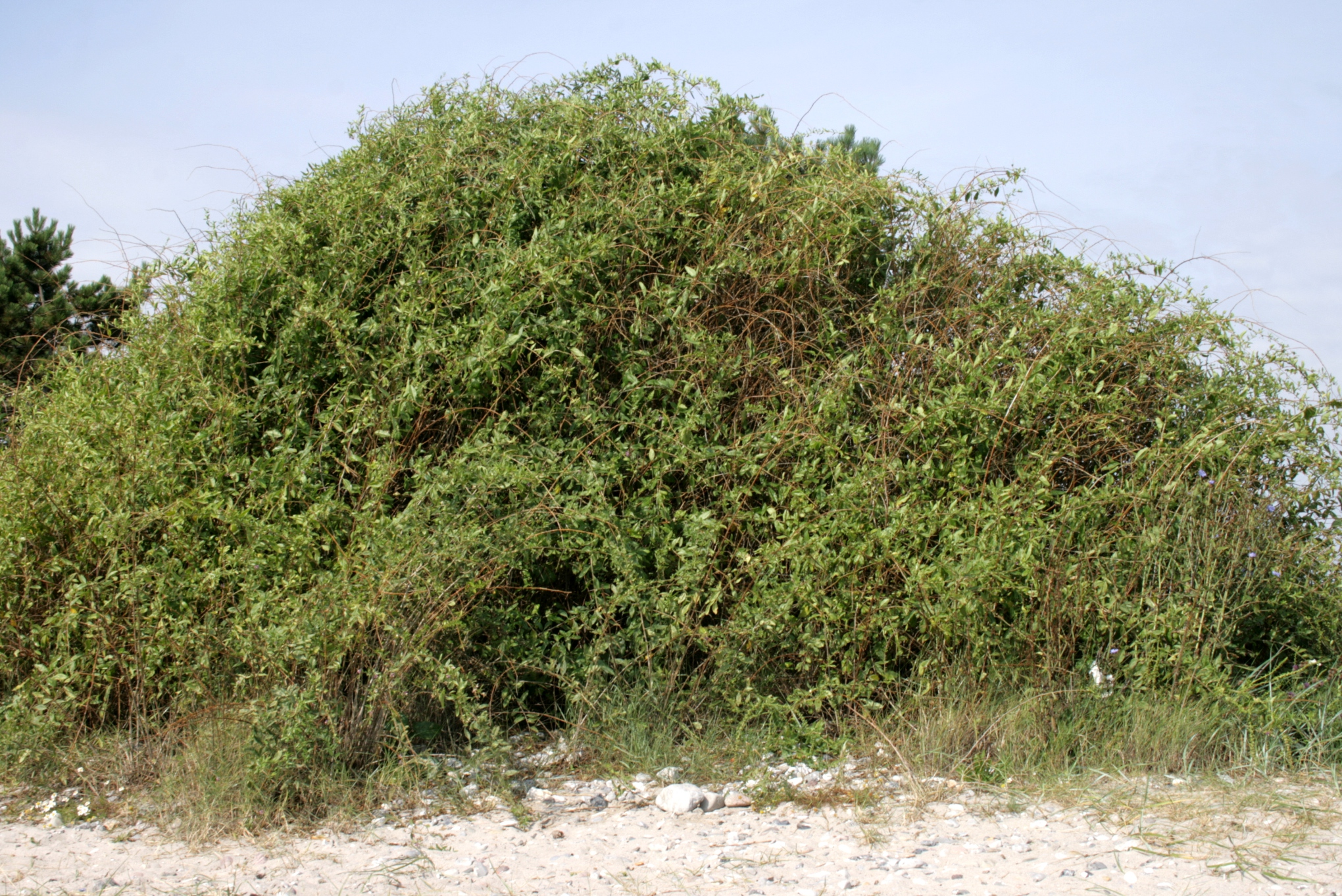 Lycium barbarum: Habitus.